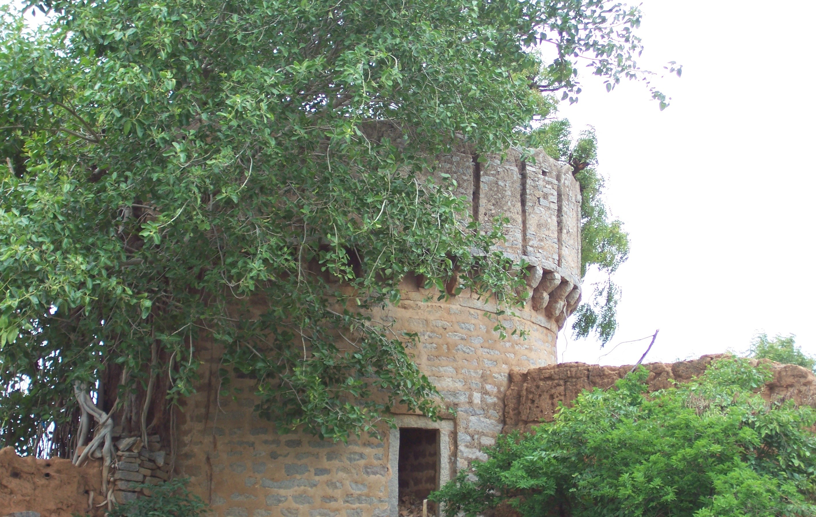 pocharam village